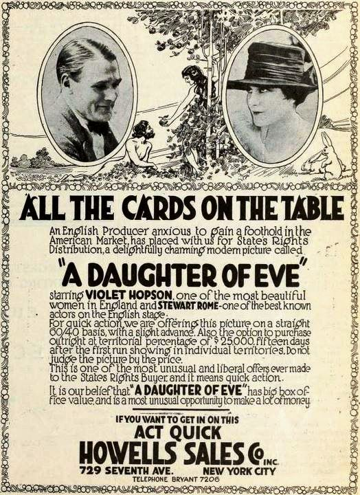 American ad for the British film A Daughter of Eve (1919) with Violet Hopson and Stewart Rome, on page 3 of the May 16, 1921 Film Daily.